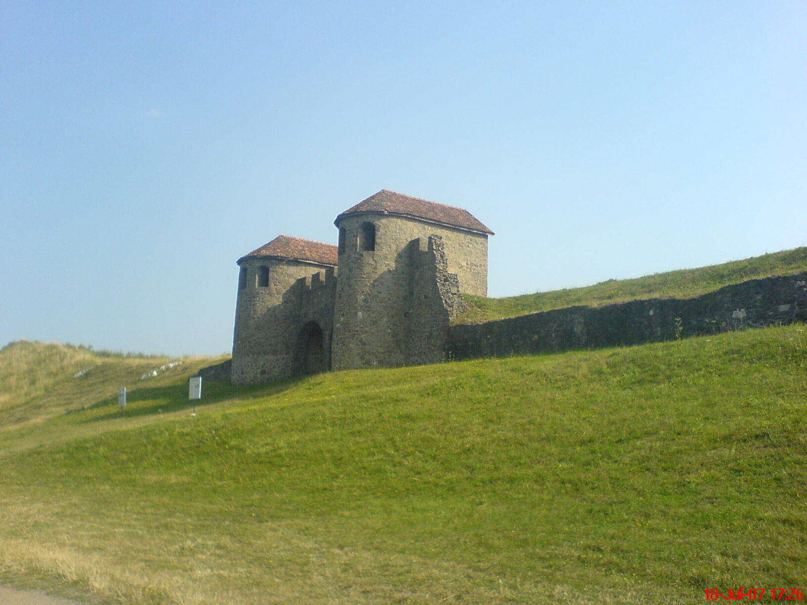 Porta Praetoria at castra Porolissum (8 km from Zalău, Romania), view from a distance.